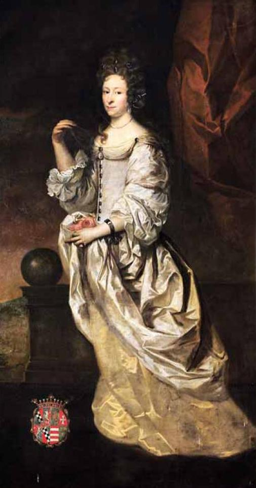 Portrait of Karen Mowat